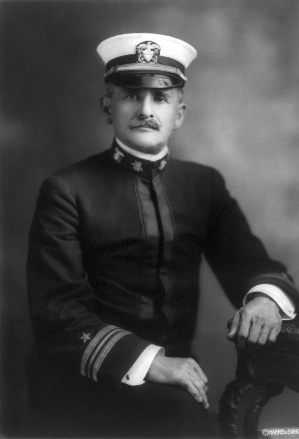 American physicist and Nobel Prize winner Albert A. Michelson (1852–1931)